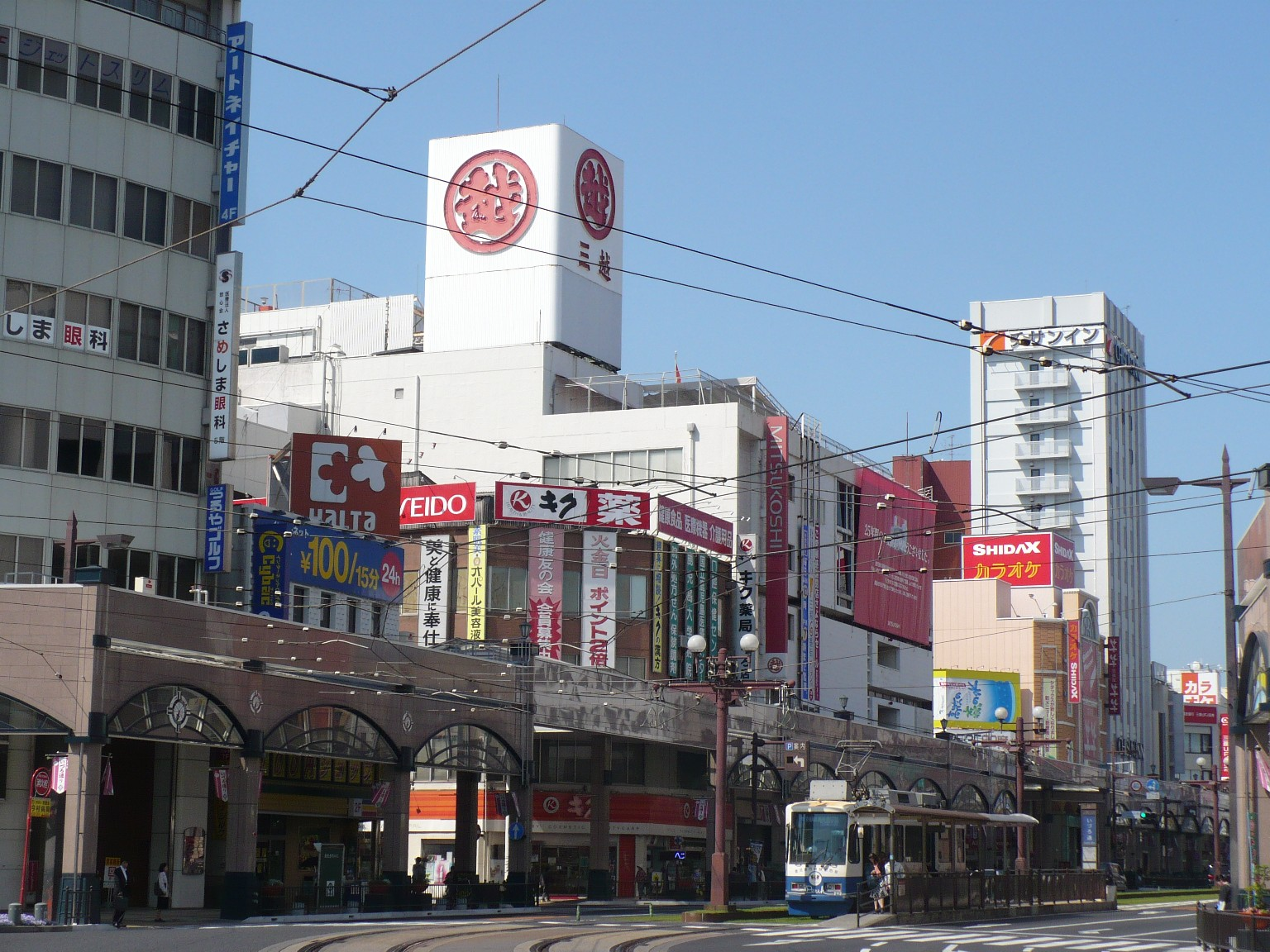 Mitsukoshi department store Kagoshima branch, seen from Izuro. Kagoshima city Kagoshima prefecture Japan. The department store was closed on May 6, 2009.